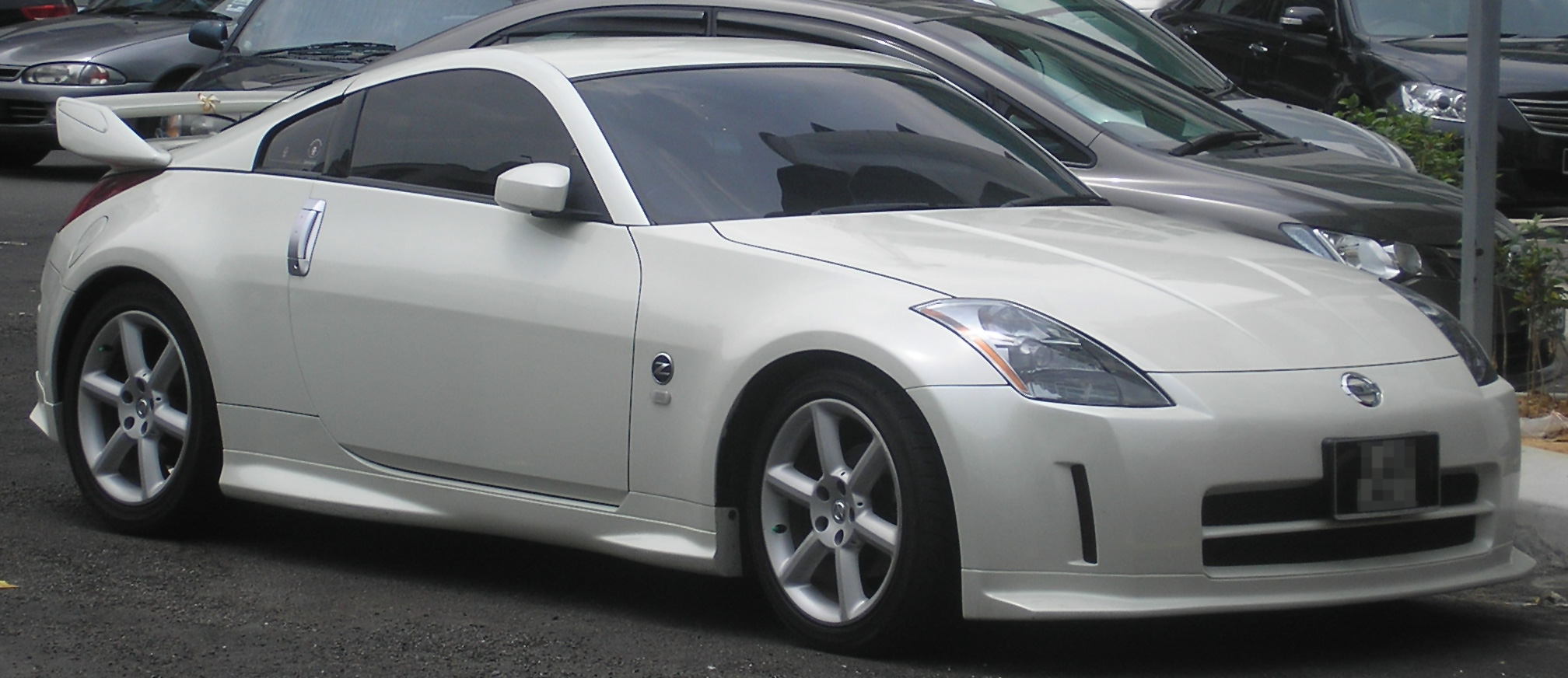 Front quarter view of a first generation Nissan 350Z (with skirts), in Serdang, Selangor, Malaysia.